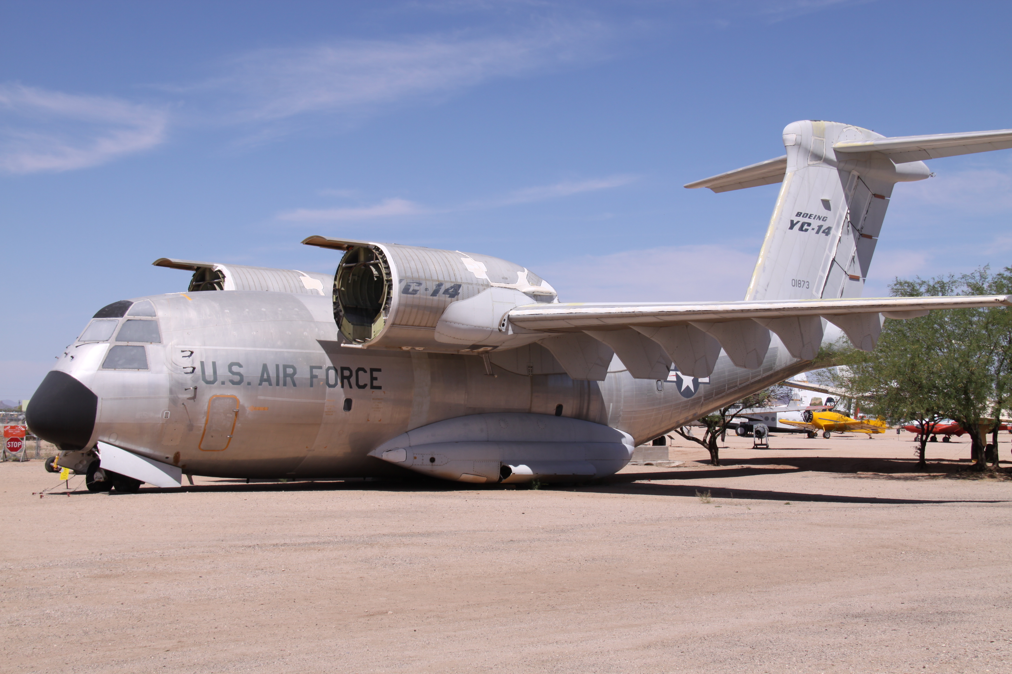 At Pima Air & Space Museum